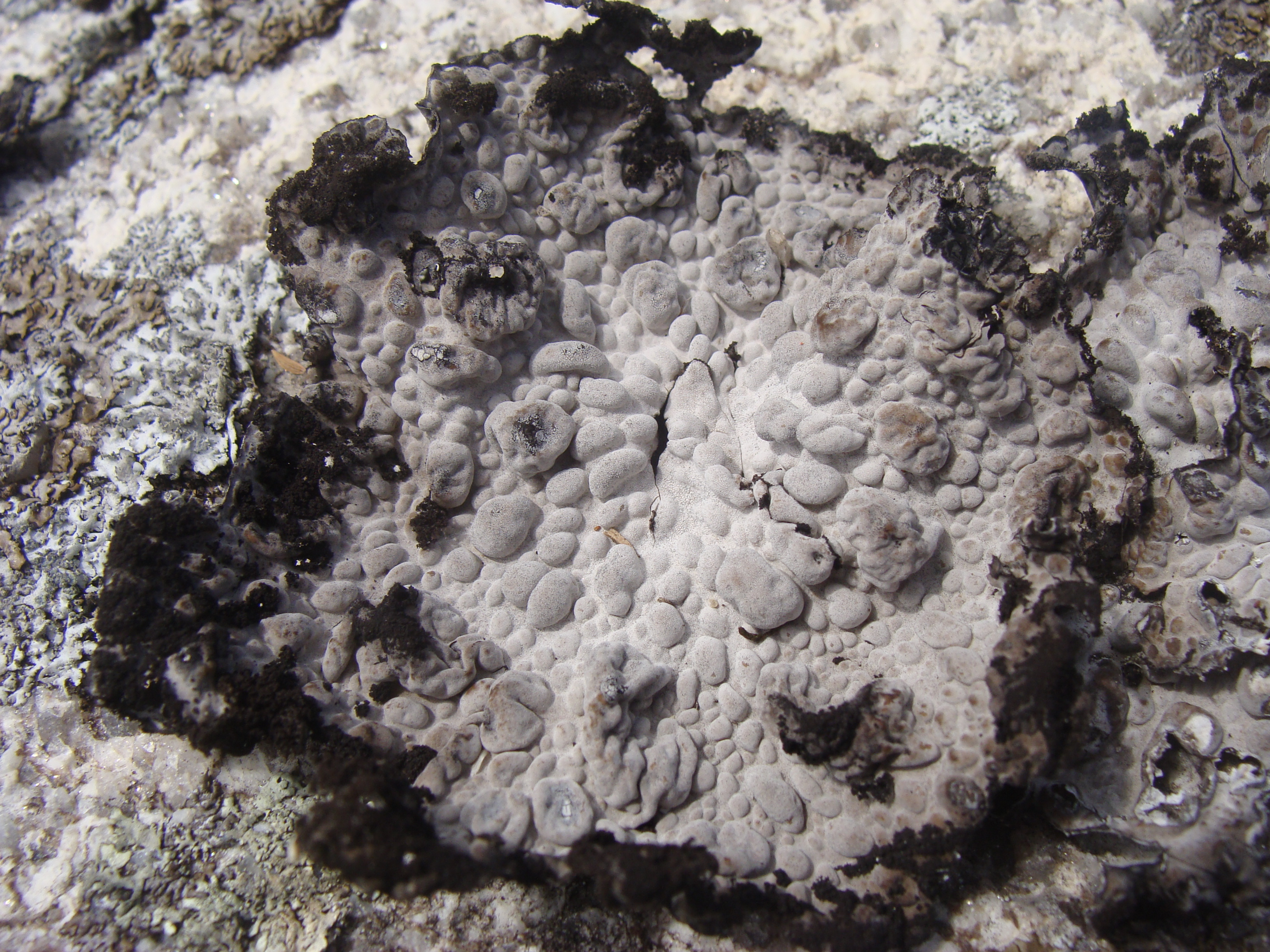 Lasallia pustulata in Corunna, Galicia, España.